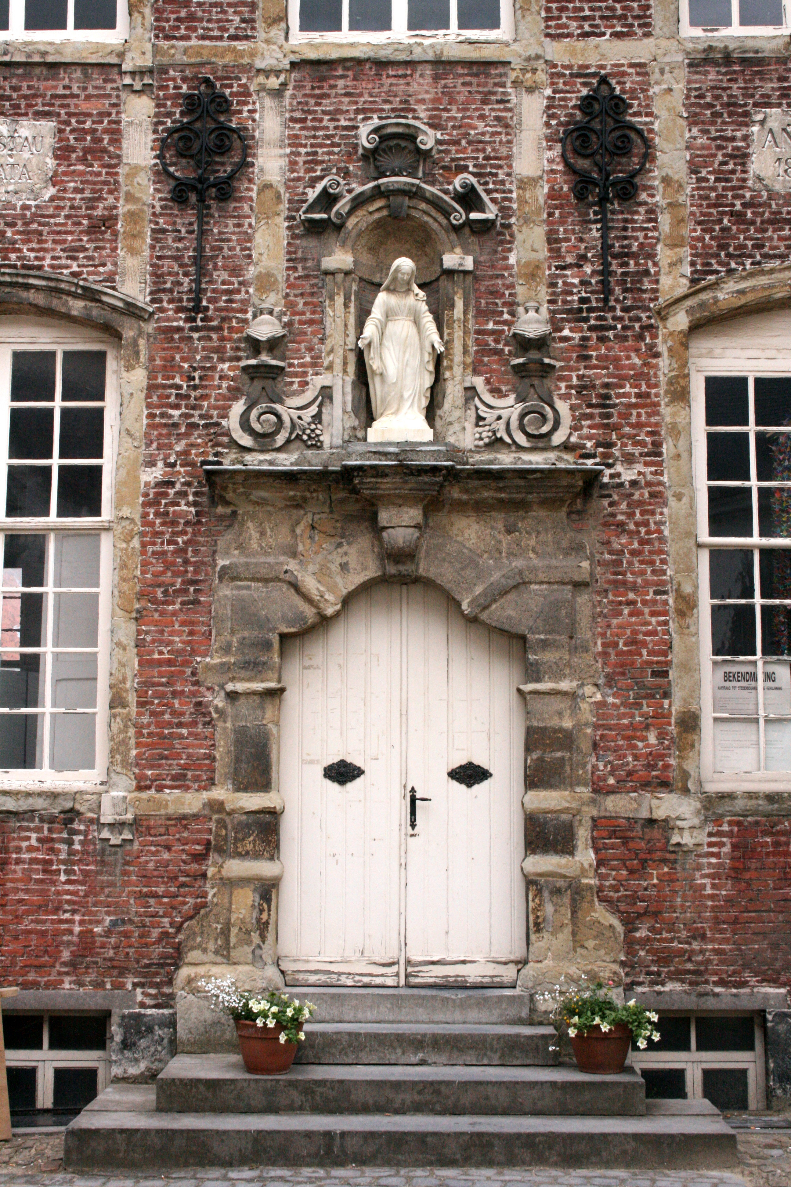 Saint Elisabeth beguinage in Kortrijk (Belgium). Saint Anne Hall